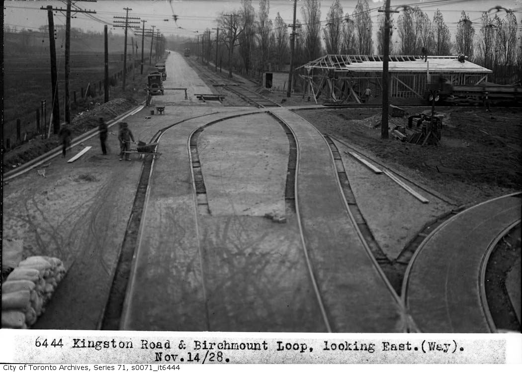 Birchmount Loop- Kingston Road and Birchmount Loop, looking east, (Way Department) Toronto Transit Commission